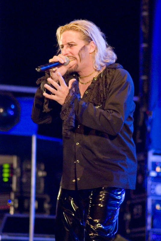 Therion live in Płock, Poland, 2008-09-06.